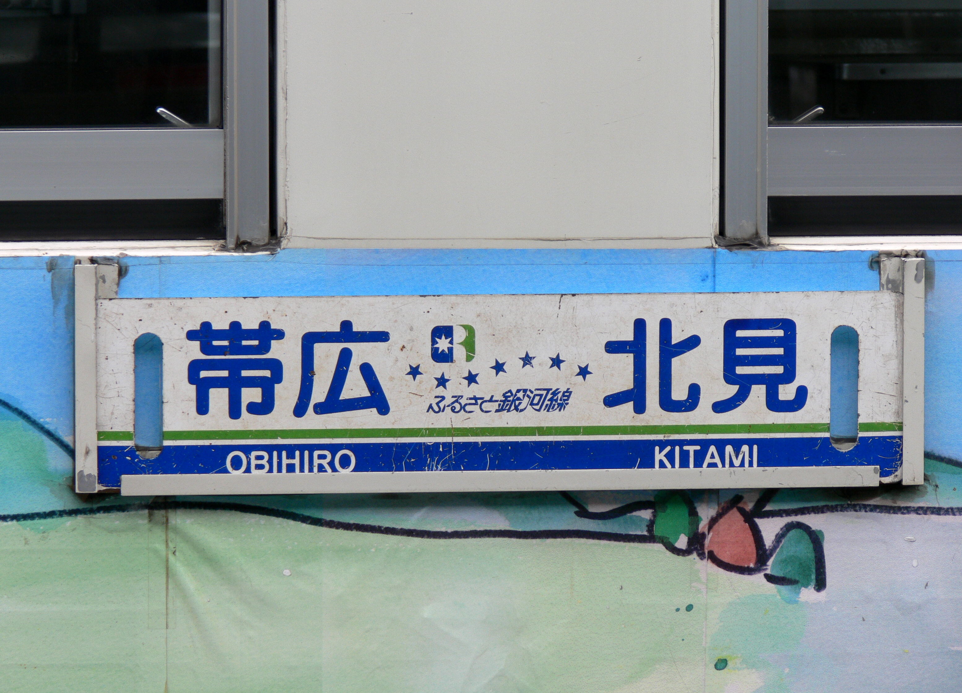 Hokkaido Chihokukogen Railway Information board.